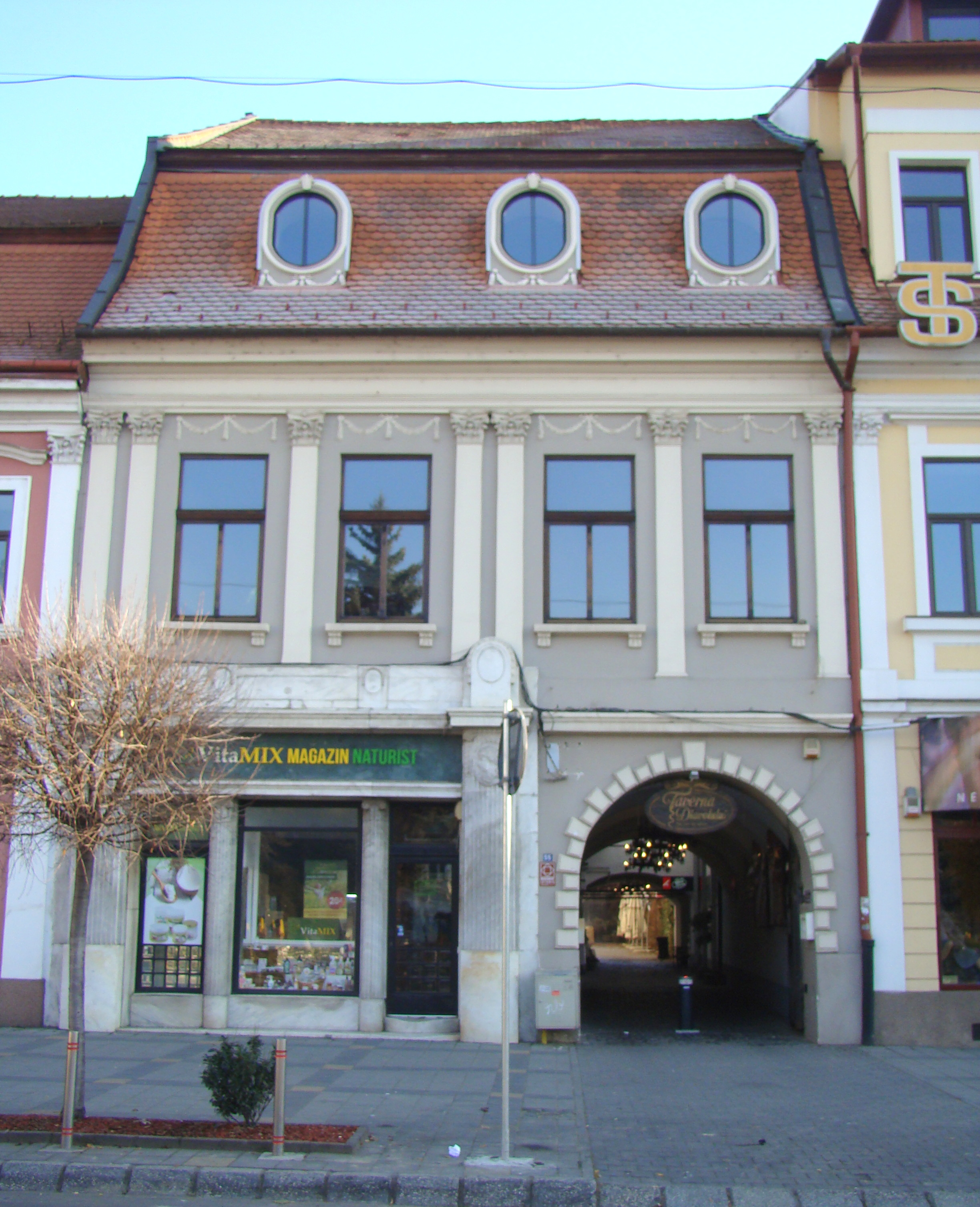 House, historic monument, in Târgu Mureș, Piața Trandafirilor 55